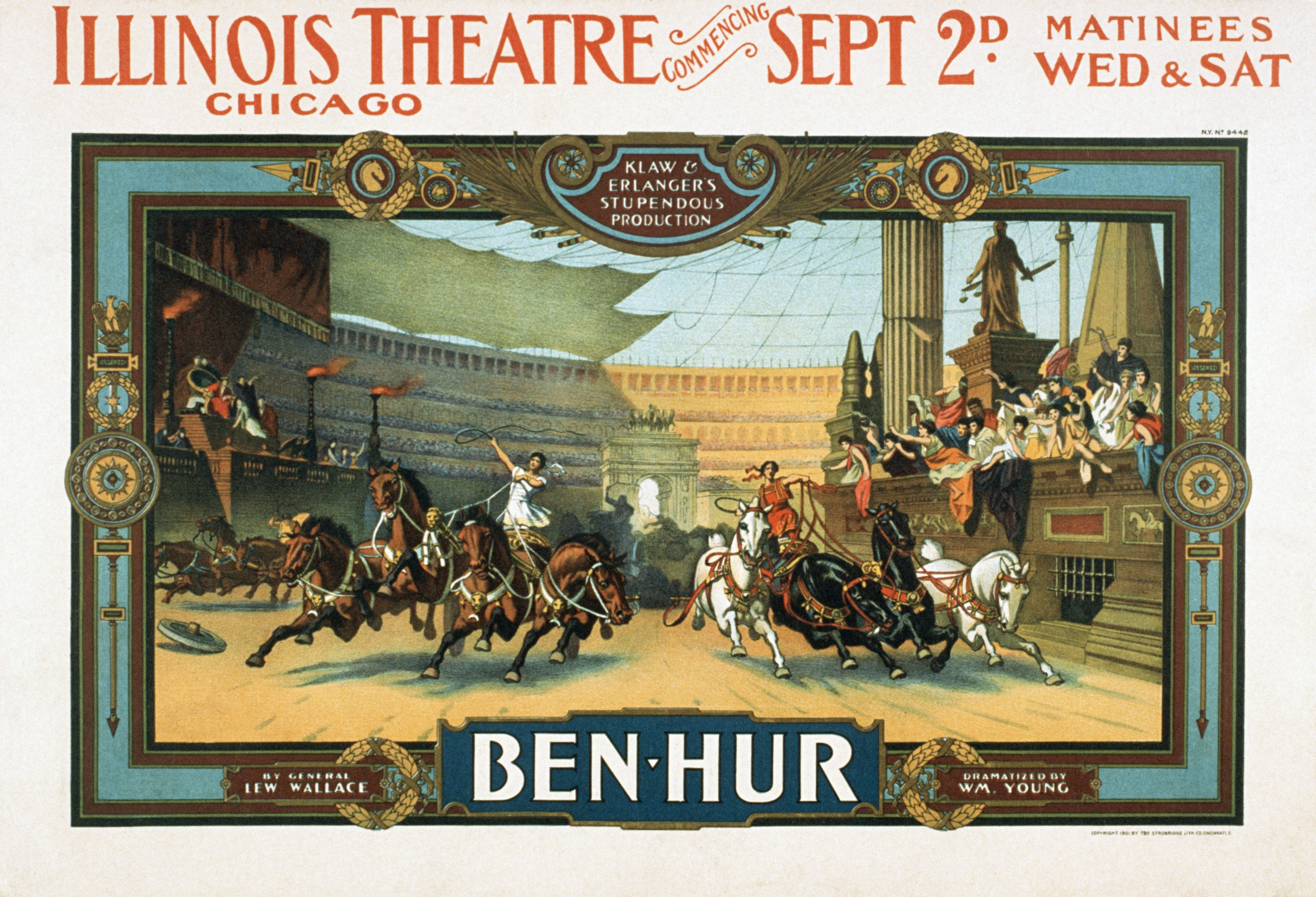 Ben-Hur: Klaw & Erlanger's Stupendous Production, theatrical poster for a production of William Young's adaptation of Lew Wallace's Ben-Hur: A Tale of the Christ.